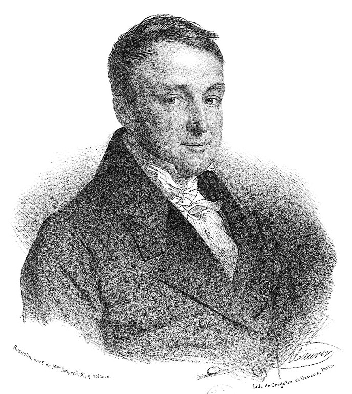 Portrait of the French psychiatrist Jacques-Joseph Moreau de Tours (1804-1884)